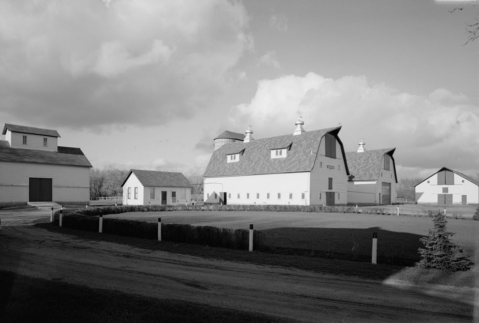 Femco Farm, Cow Barn, Kent vicinity, Wilkin County, MN GENERAL VIEW OF FARMYARD WITH COW BARN TO THE CENTER, GRANARY AND TENANT HOUSE TO THE LEFT AND SHEEP BARN TO THE RIGHT, LOOKING NORTHEAST